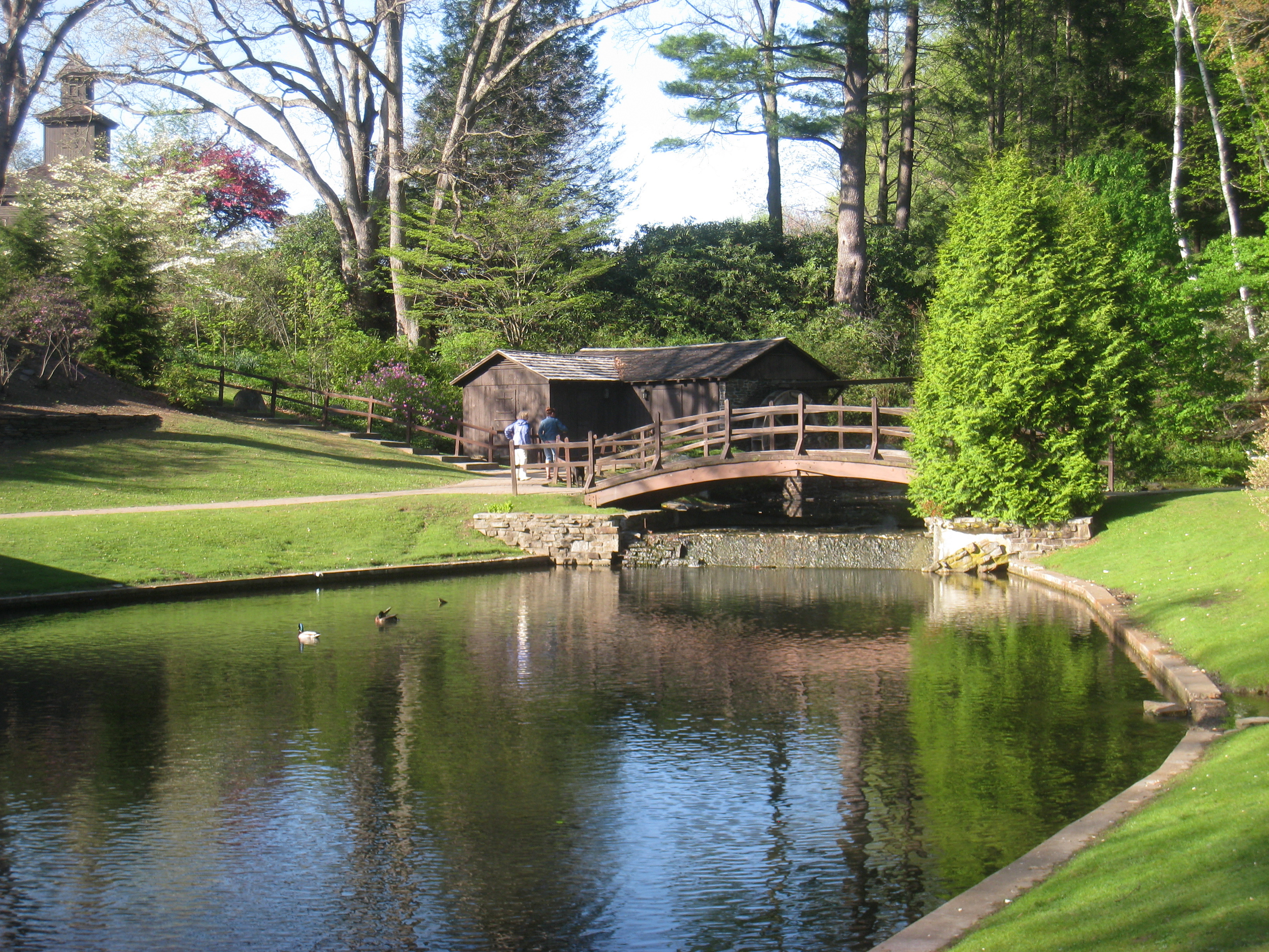 Stanley Park of Westfield - Westfield, Massachusetts, USA.